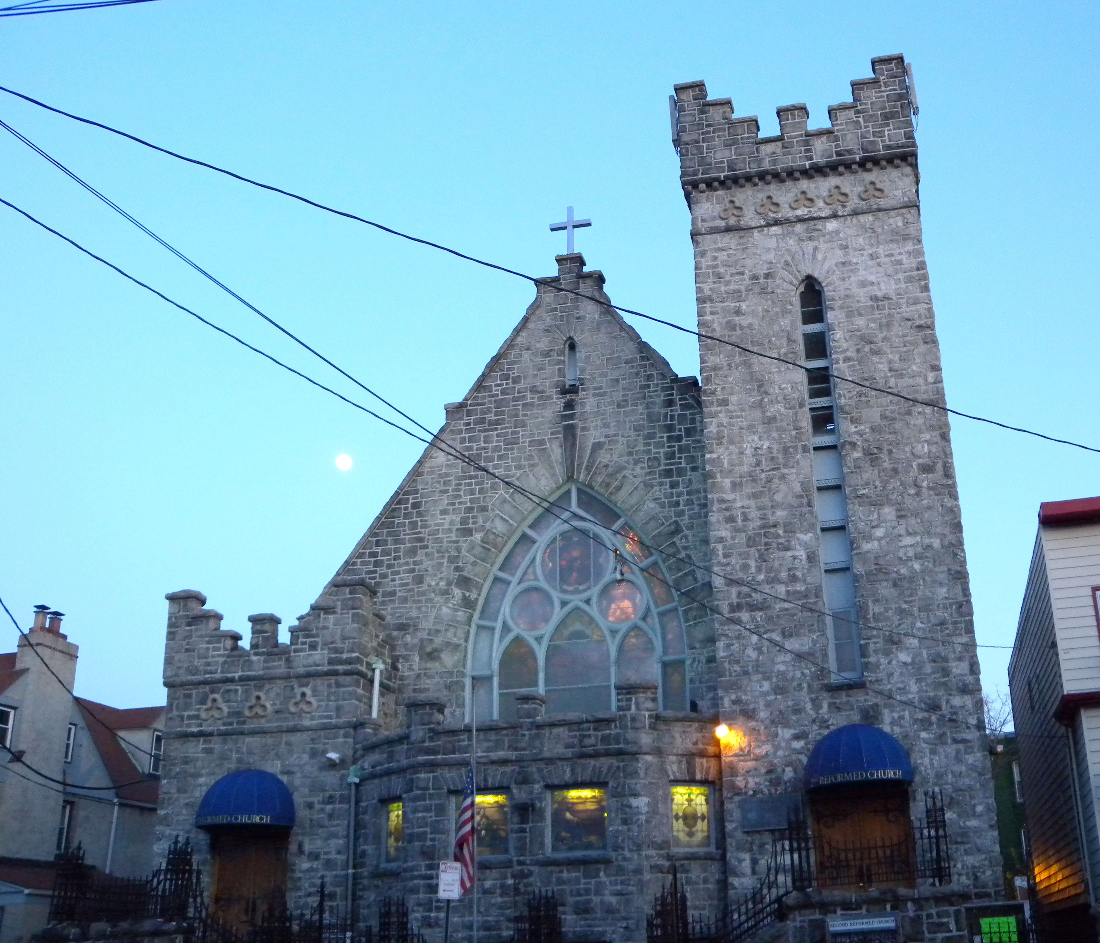 Looking east across Summit Avenue at Second Reformed Church of Jersey City in twilight of a clear evening with the Moon rising behind.